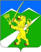 Coat of arms of Zasovskaya, Labinsk Raion, Krasnodar Krai, Russia.